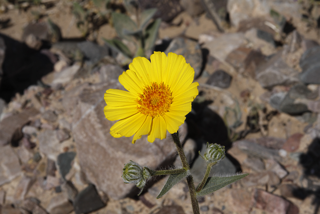 Native to Western North America, the Desert Sunflower is also known as the hairy desert sunflower, or desert gold. Its scientific name comes from the Greek geraios ("old man"), referring to the white hairs on the fruits. Reference